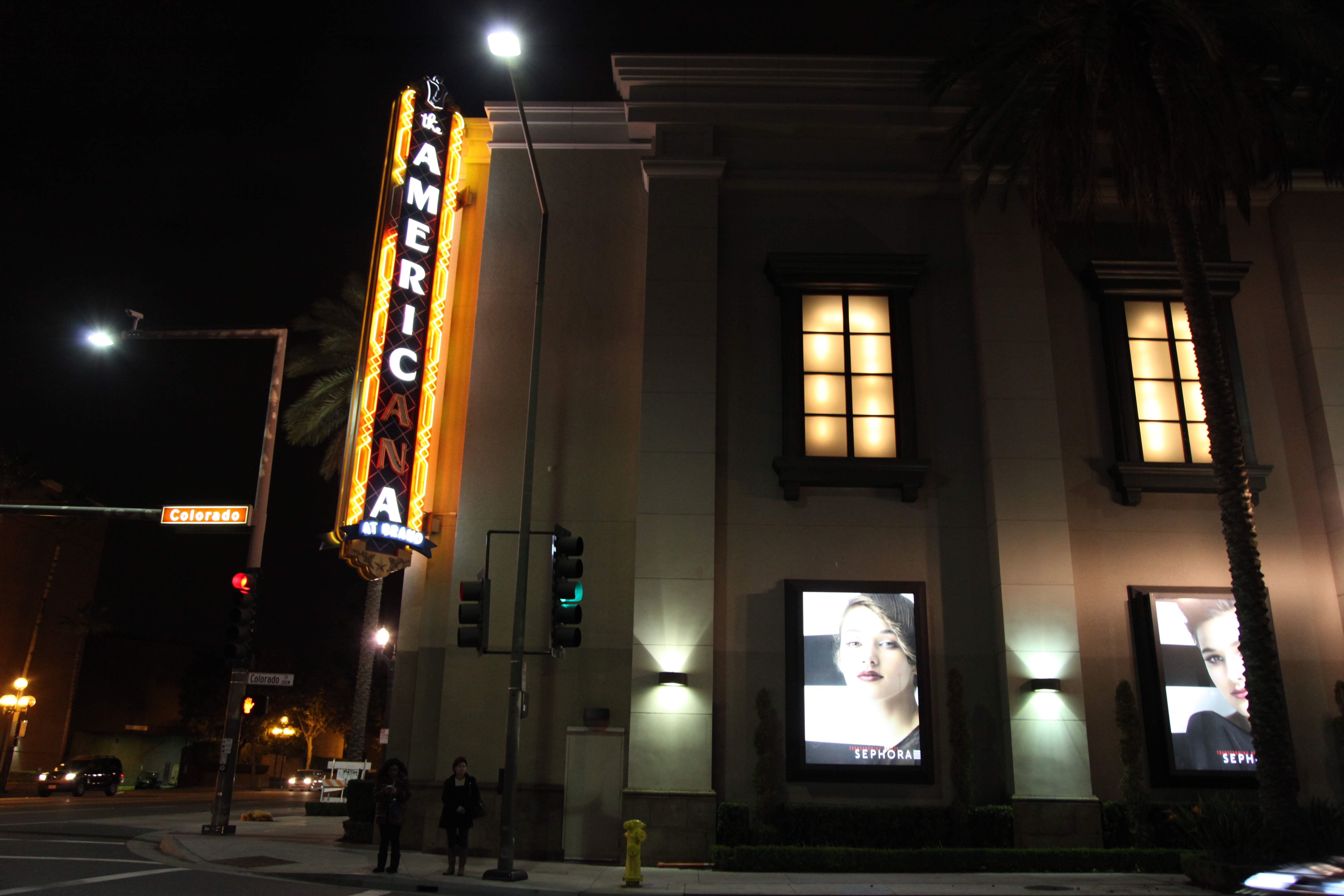 The Americana in Brand. Glendale, Ca.